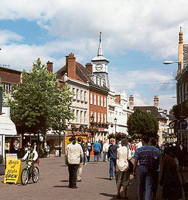 Nuneaton town centre, England.